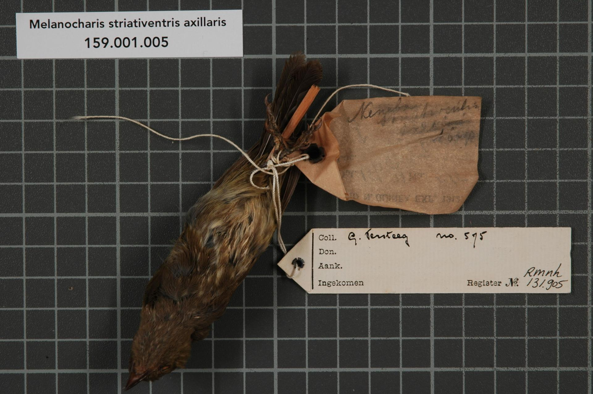 Melanocharis striativentris axillaris (Mayr, 1931)